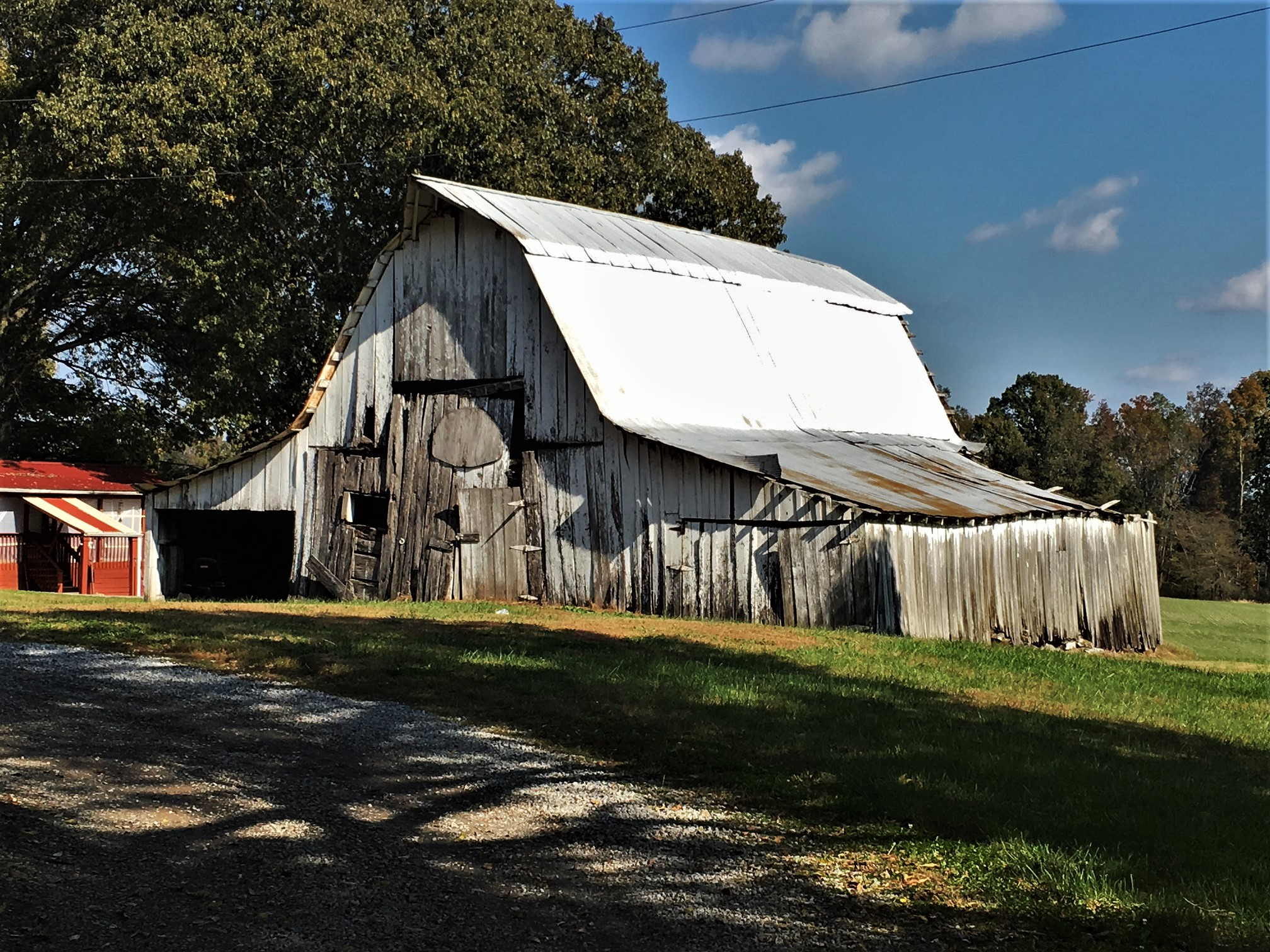 John Bridges Tavern and Store Site This is sole remaining historic structure at Site per owner's family member.